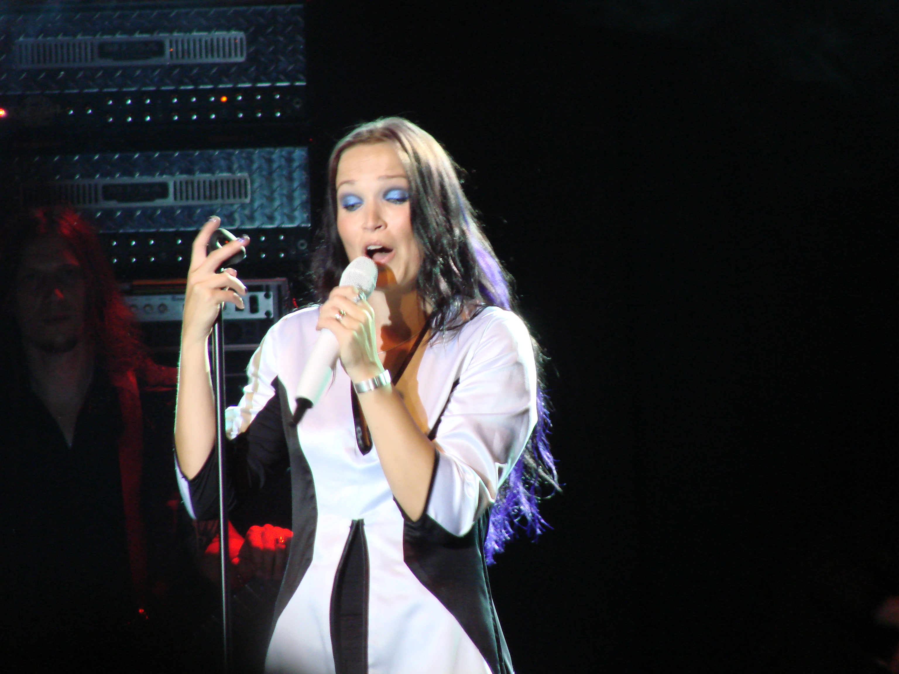 Tarja Turunen at La Trastienda, Buenos Aires, Argentina on May 26, 2009. This show was the third in Buenos Aires in her Storm Returns to the America’s tour.